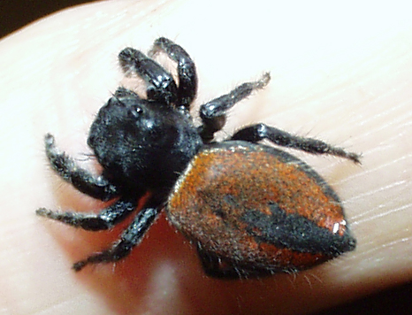 Phidippus johnsoni (?) 18 mm. body length, female. These spiders are quite large for Salticidae (jumping spiders). Their red coloration and relatively slow speed to escape may make them attractive to children. Like other Salticidae they are capable of giving defensive bites that are about as painful as a bee sting. This particular spider was quite easy to handle and did not even make a threat display. Ordinarily, Salticidae will bite only upon being pinched or otherwise severely provoked. Photo January 2006 by Patrick Edwin Moran.